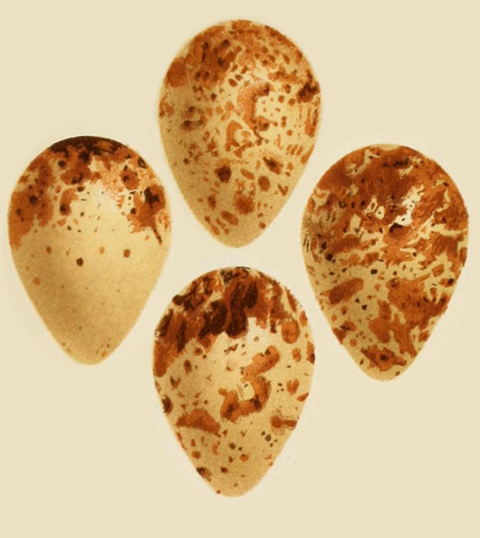 « Tringa minuta » = Calidris minuta (Little Stint) - eggs